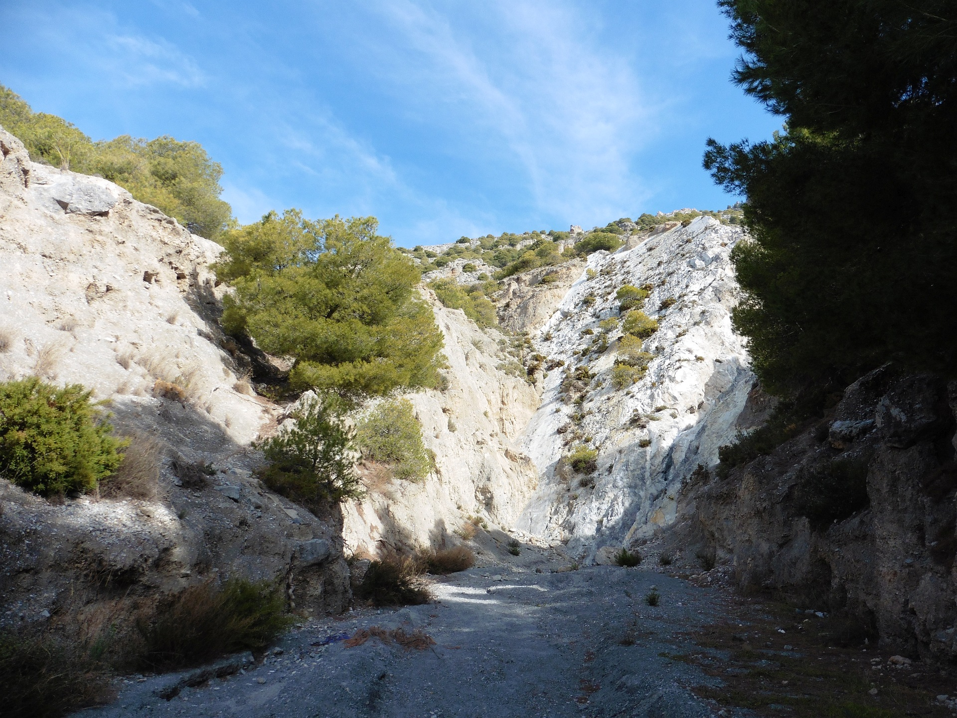 Falla de Nigüelas